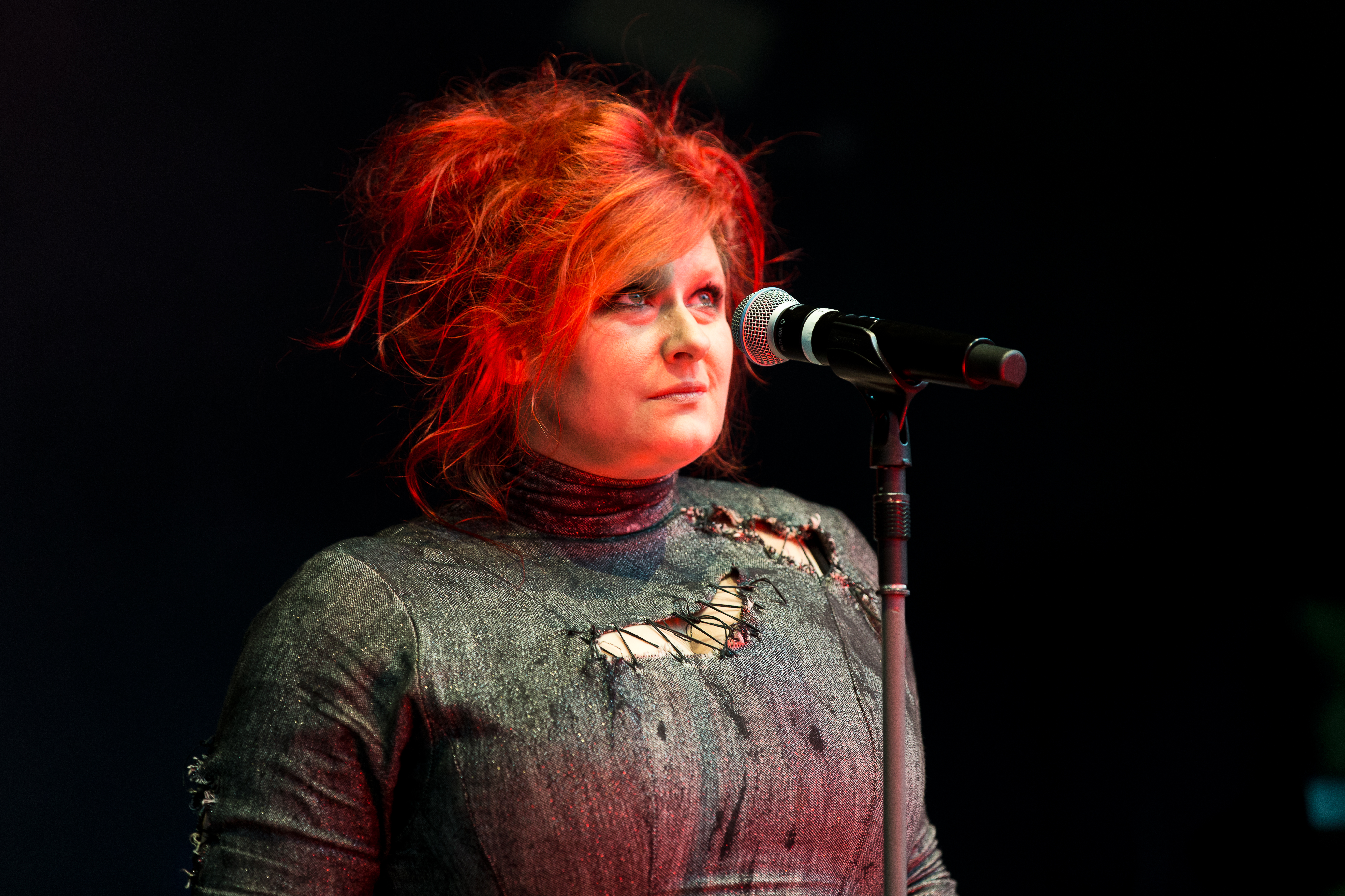 The Austrian electro rock band L'Âme Immortelle at the Nocturnal Culture Night 11 2016 in Deutzen/Germany.